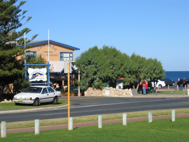 Costa Del Sol Cafe and Restaurant and The Indian Ocean at Burns Beach photographed by Paul Clarke - May 2006. Costa Del Sol Cafe and Restaurant and The Indian Ocean at Burns Beach photographed by Paul Clarke - May 2006.